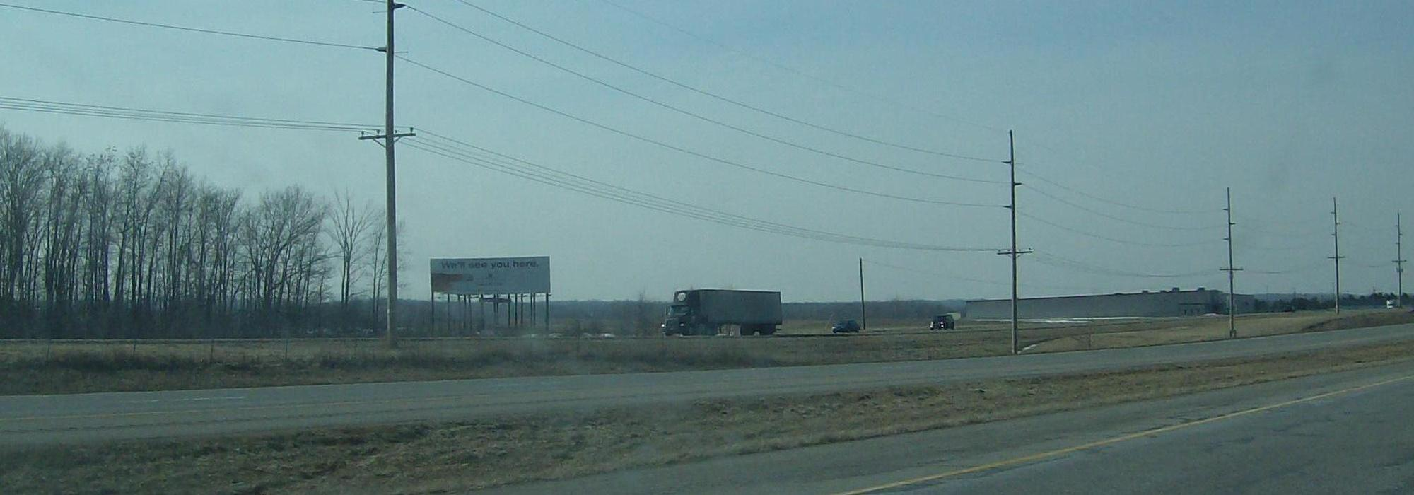 View of Ohio State Route 287 along U.S. Route 33 in Zane Township, Logan County, Ohio, United States.